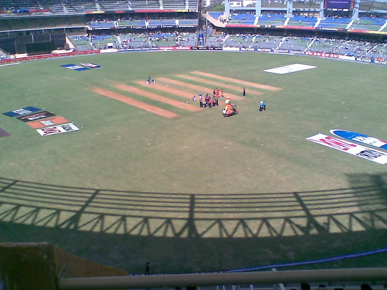 The wankhede stadium In Mumbai.